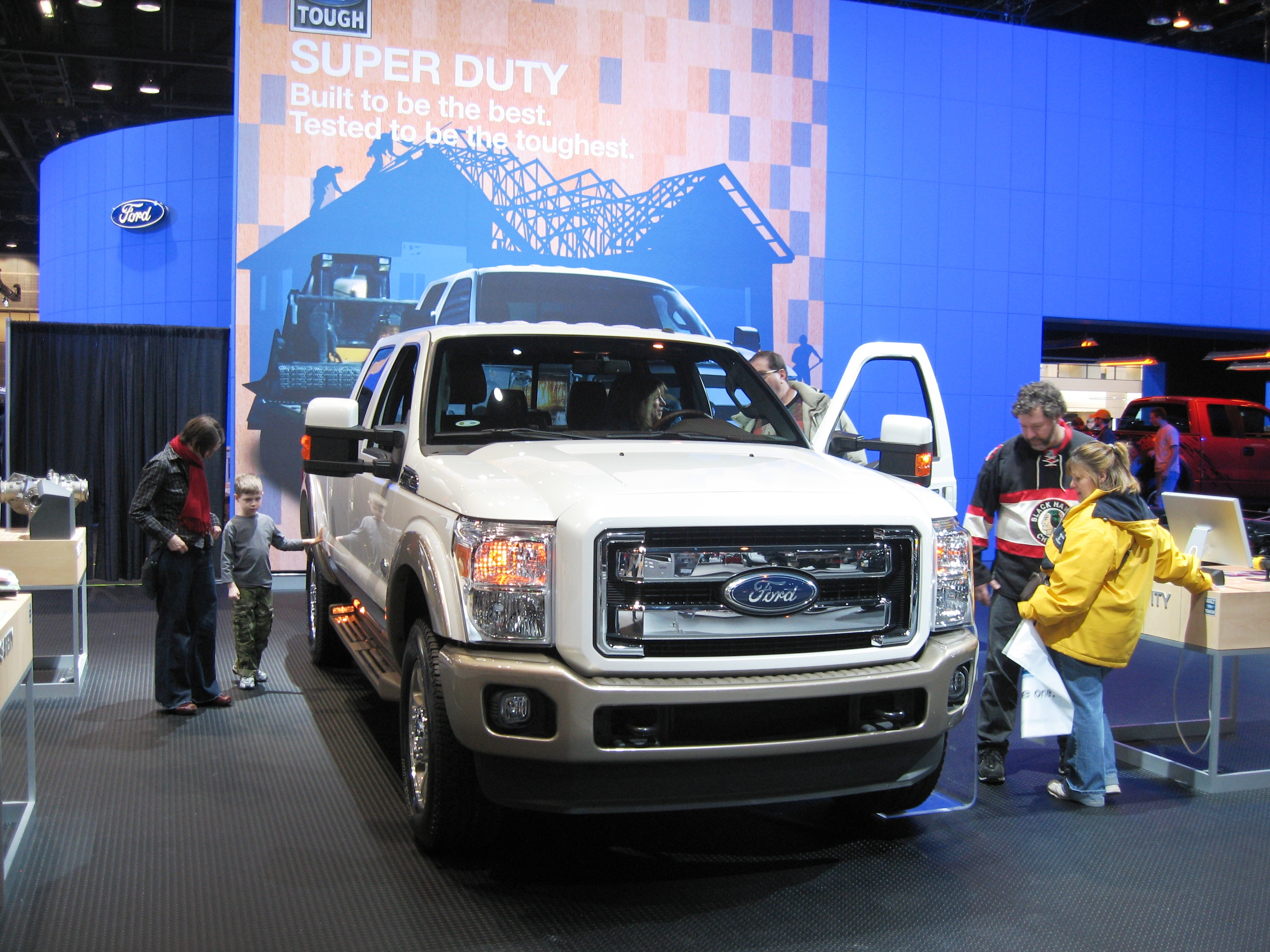 2011 Ford Super Duty at Chicago Auto Show 2010.